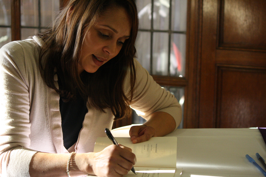 Pulitzer Prize winning poet Natasha Trethewey signs a copy of her book Native Guard at the University of Michigan